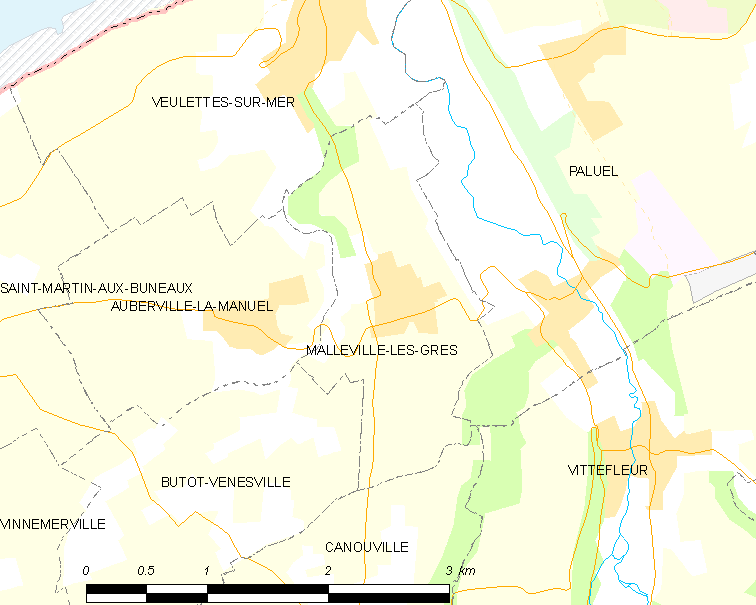 Map of French municipality Malleville-les-Grès